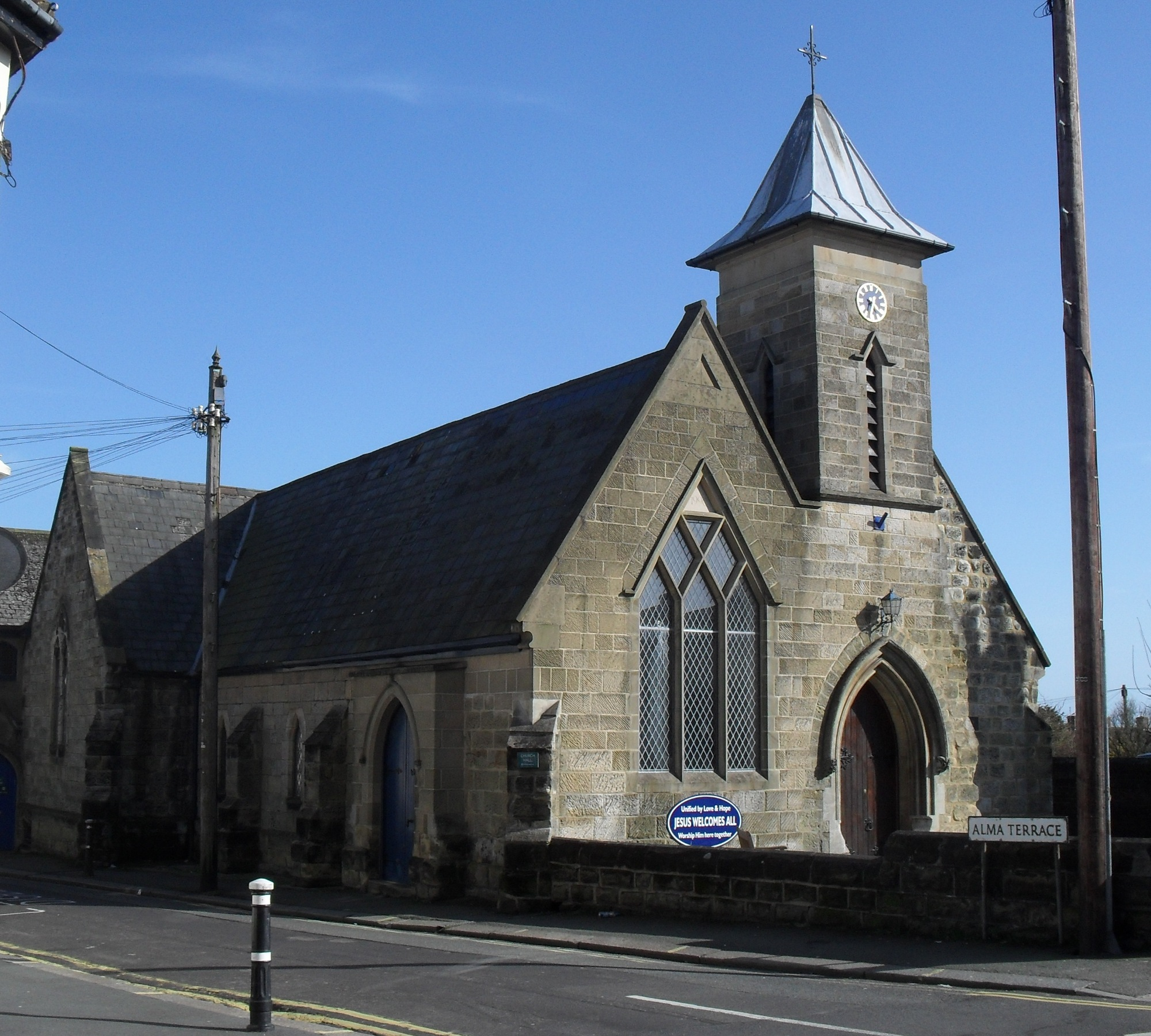 St Luke's United Reformed Church, Sedlescombe Road North, Silverhill, Hastings, East Sussex, England. Built in 1857 by Henry Carpenter as one of the first Presbyterian churches in southeast England. This view is from the northwest, showing the church hall (1909) behind the body of the church.